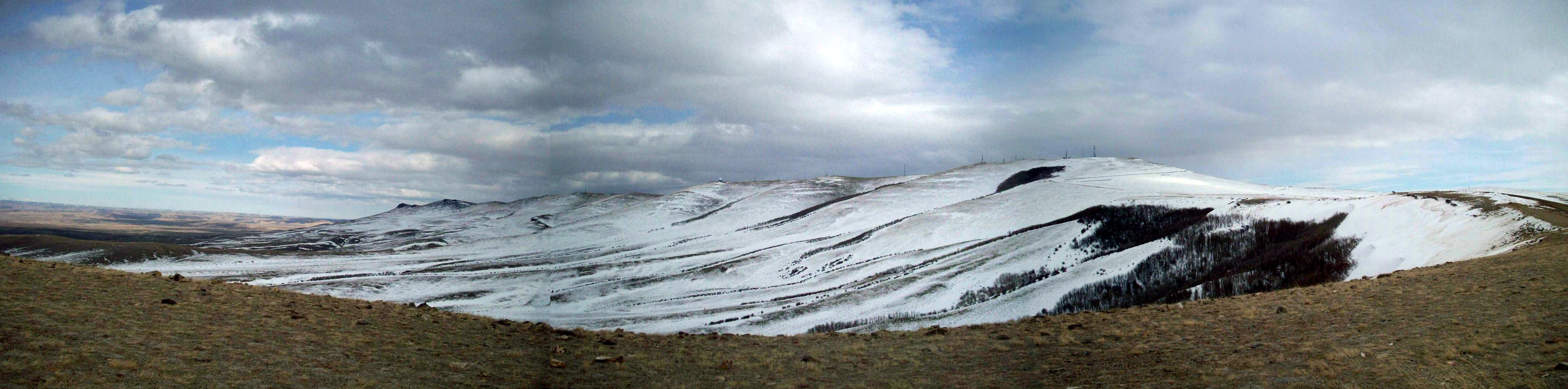 Aspen Mountain Wyoming, from Aspen Mountain Road. South of Rock Springs, Wyoming, looking south.